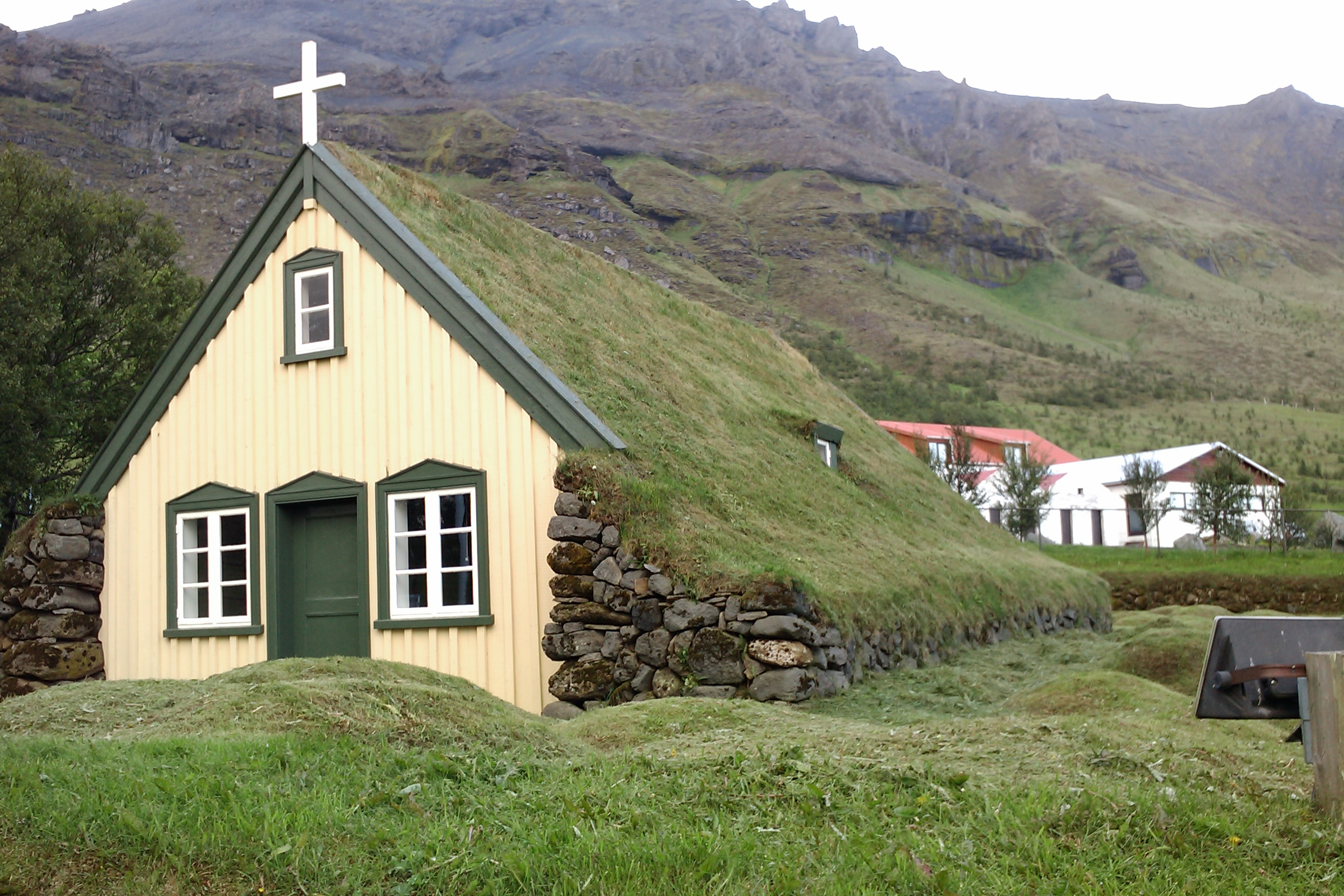 Wood and turf church at Hof, Iceland